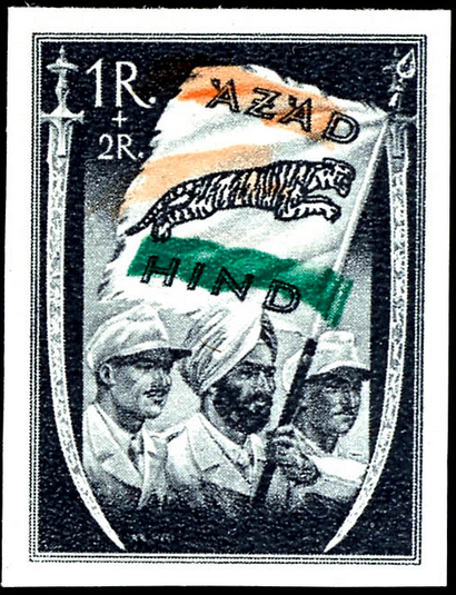 Stamp of "Azad Hind", 1943 Stamps produced in Germany, prepared by the German Government for India, but never issued.